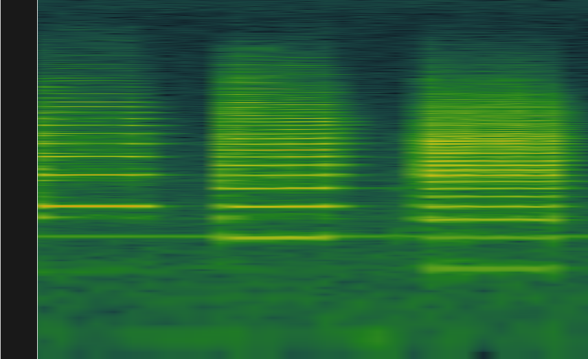 Spectrogram without annotations of Pedal_tone_demonstration.ogg